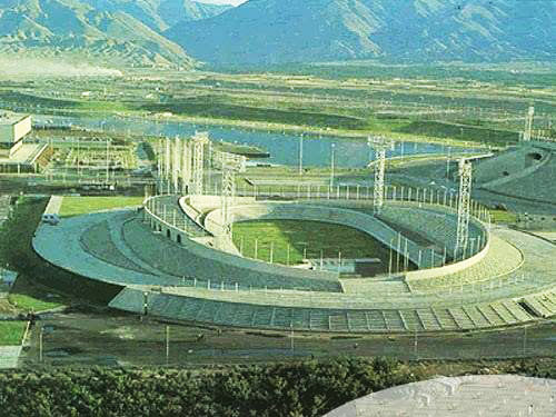 Azadi (Aryamehr) stadium - Cycling Track 25 Mehr 1350